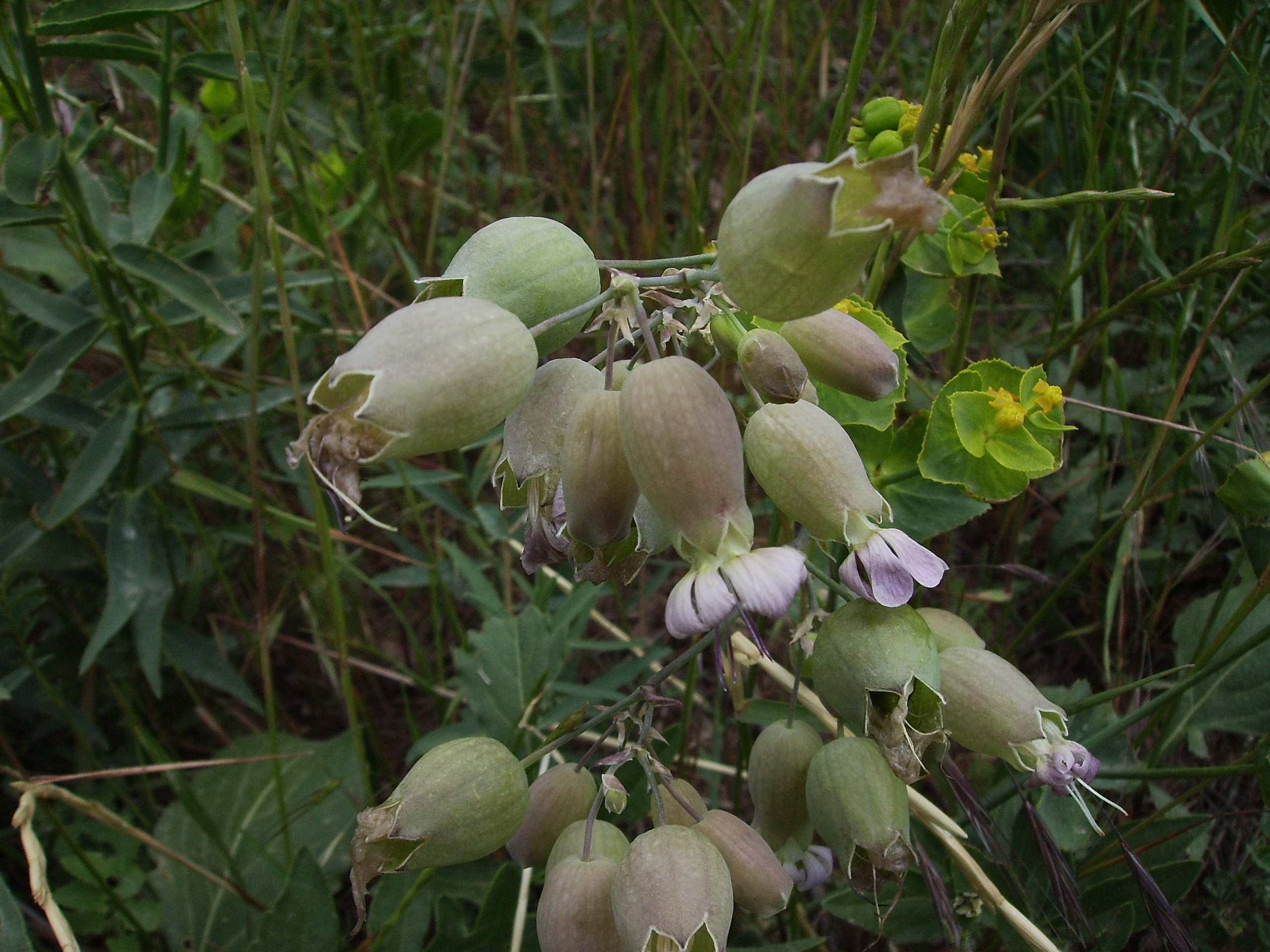 Silene vulgaris - an edible leaves plant. Castelltallat Catalonia